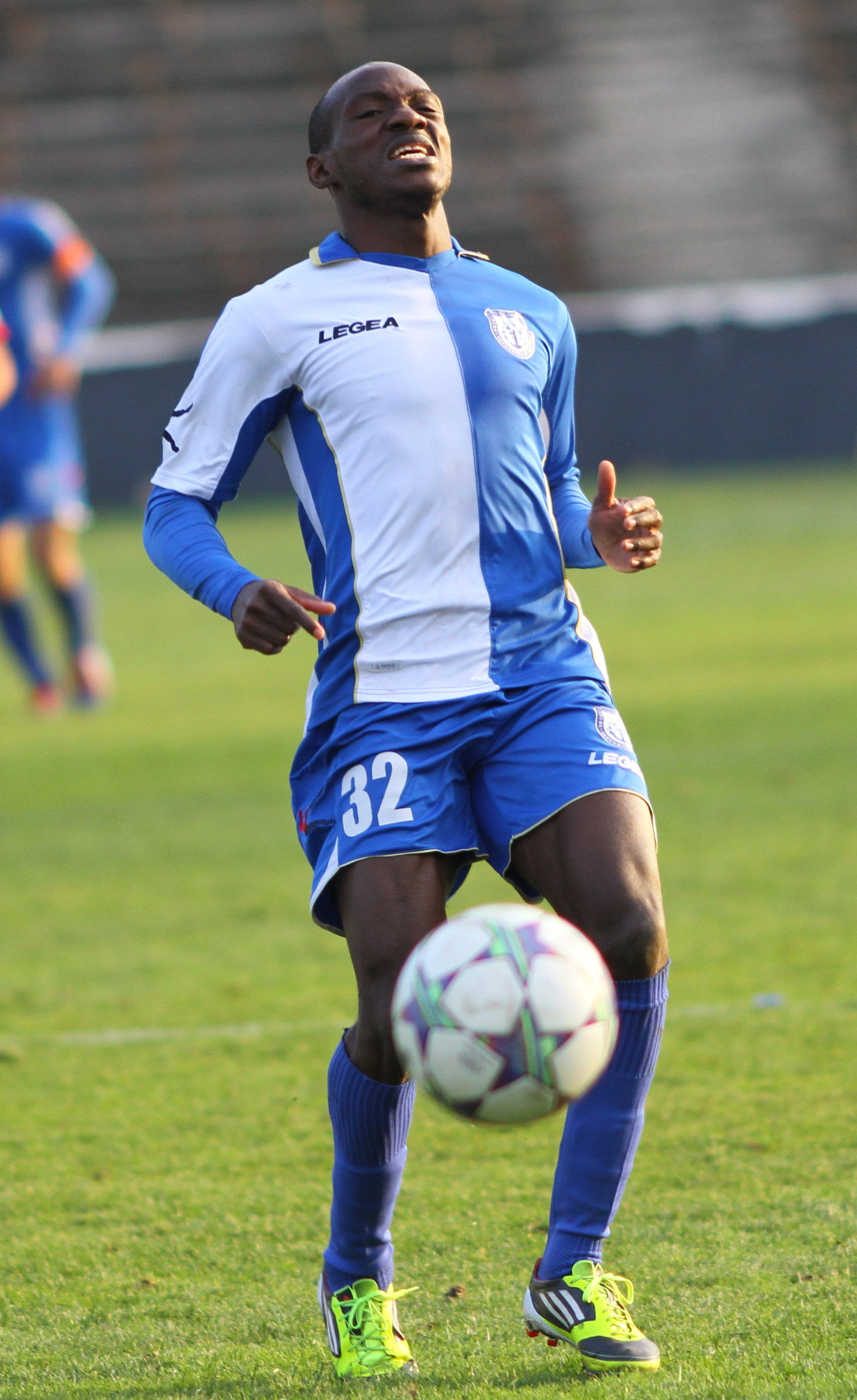 Issouf Ouattara (born 7 October 1988 in Ouagadougou) is a Burkinabé footballer who plays for PSFC Chernomorets Burgas in Bulgaria, as a forward.